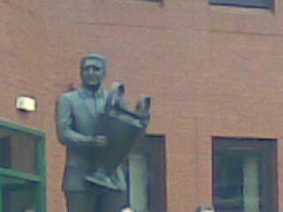 The Jock Stein statue at Celtic Park